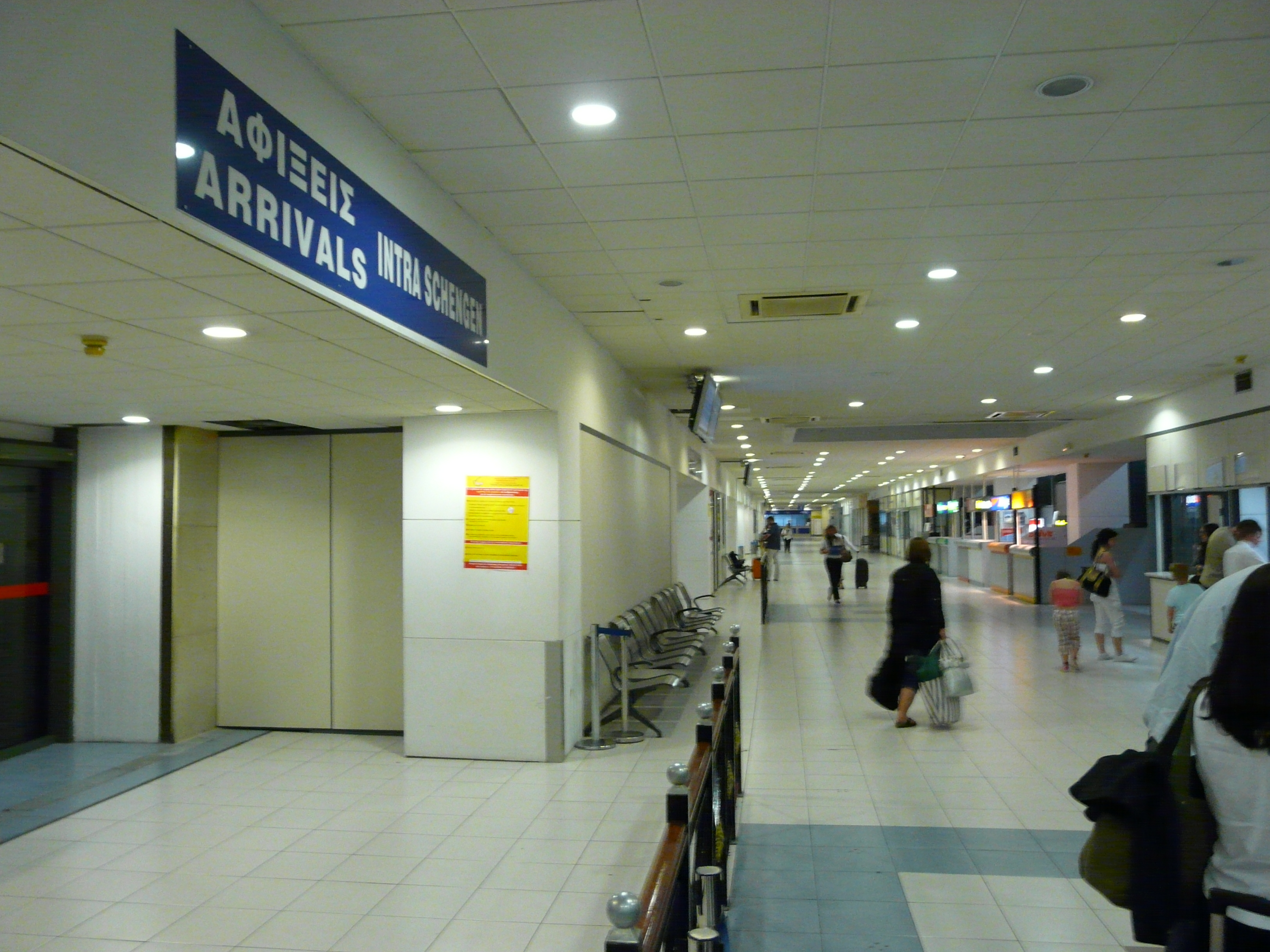 Rhodes International Airport, "Diagoras", 2009.